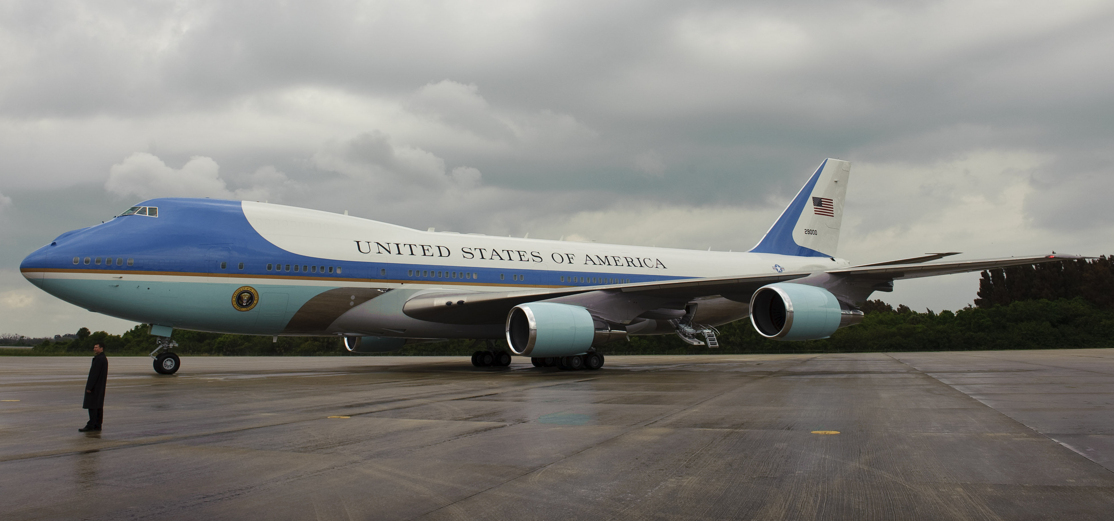 Air Force One is seen as it prepares to depart from the NASA Shuttle Landing Facility (SLF) after President Barack Obama delivered a speech at the NASA Kennedy Space Center in Cape Canaveral, Fla. on Thursday, April 15, 2010. Obama visited Kennedy Space Center to deliver remarks on the bold new course the Administration is charting for NASA and the future of U.S. leadership in human space flight.